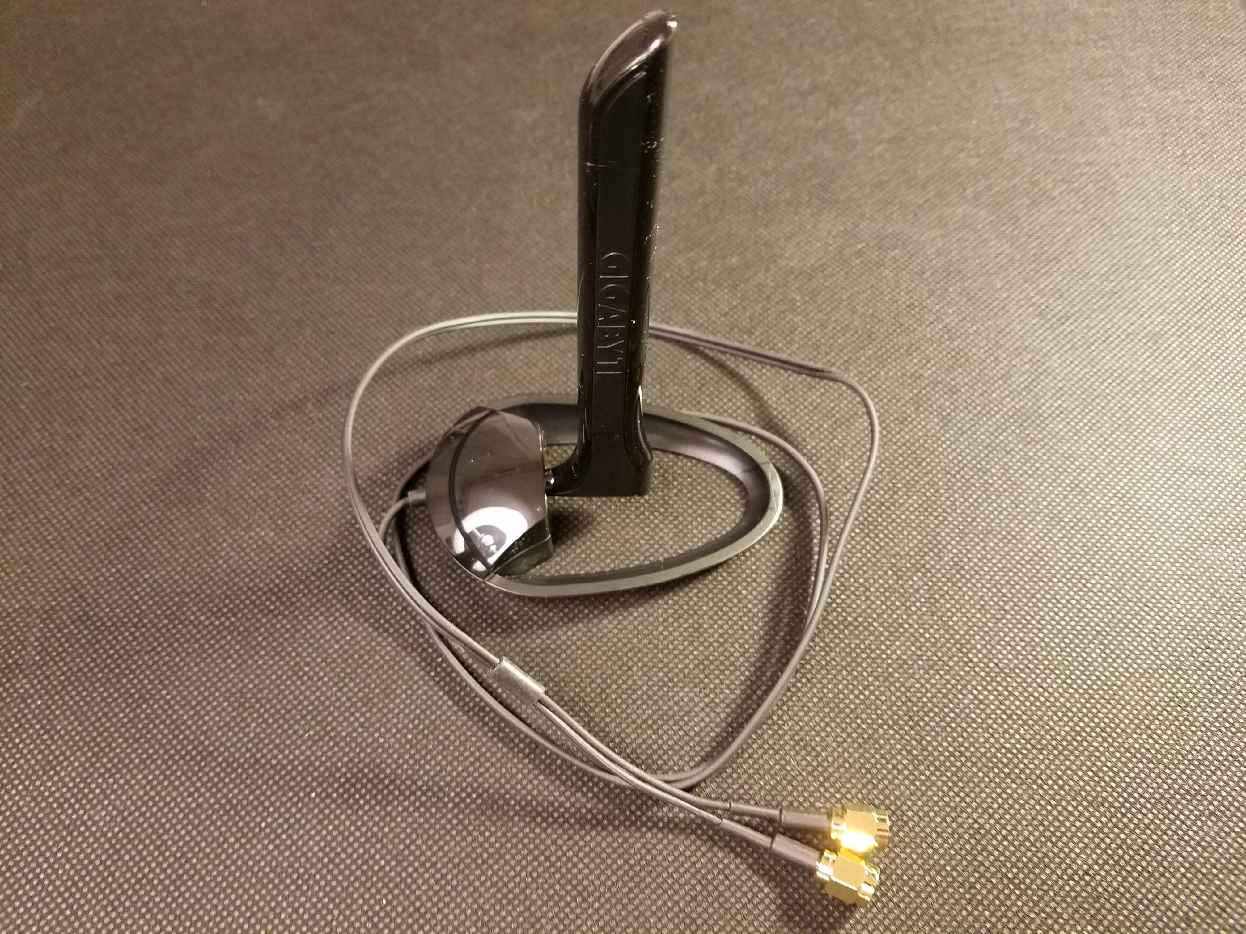 Antenna of wireless network interface controller Gigabyte GC-WB867D-I